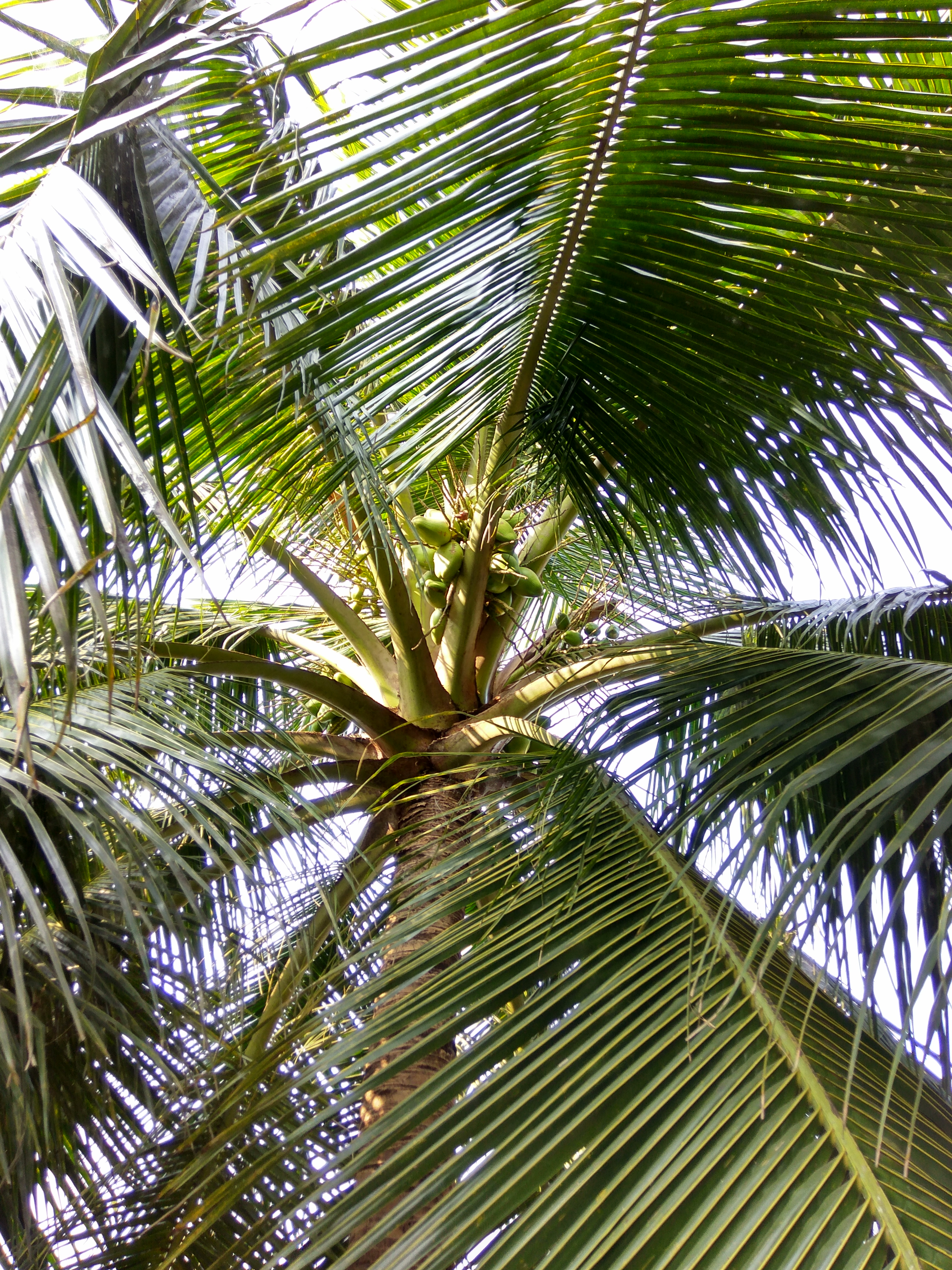 Coconut trees of Bangladesh